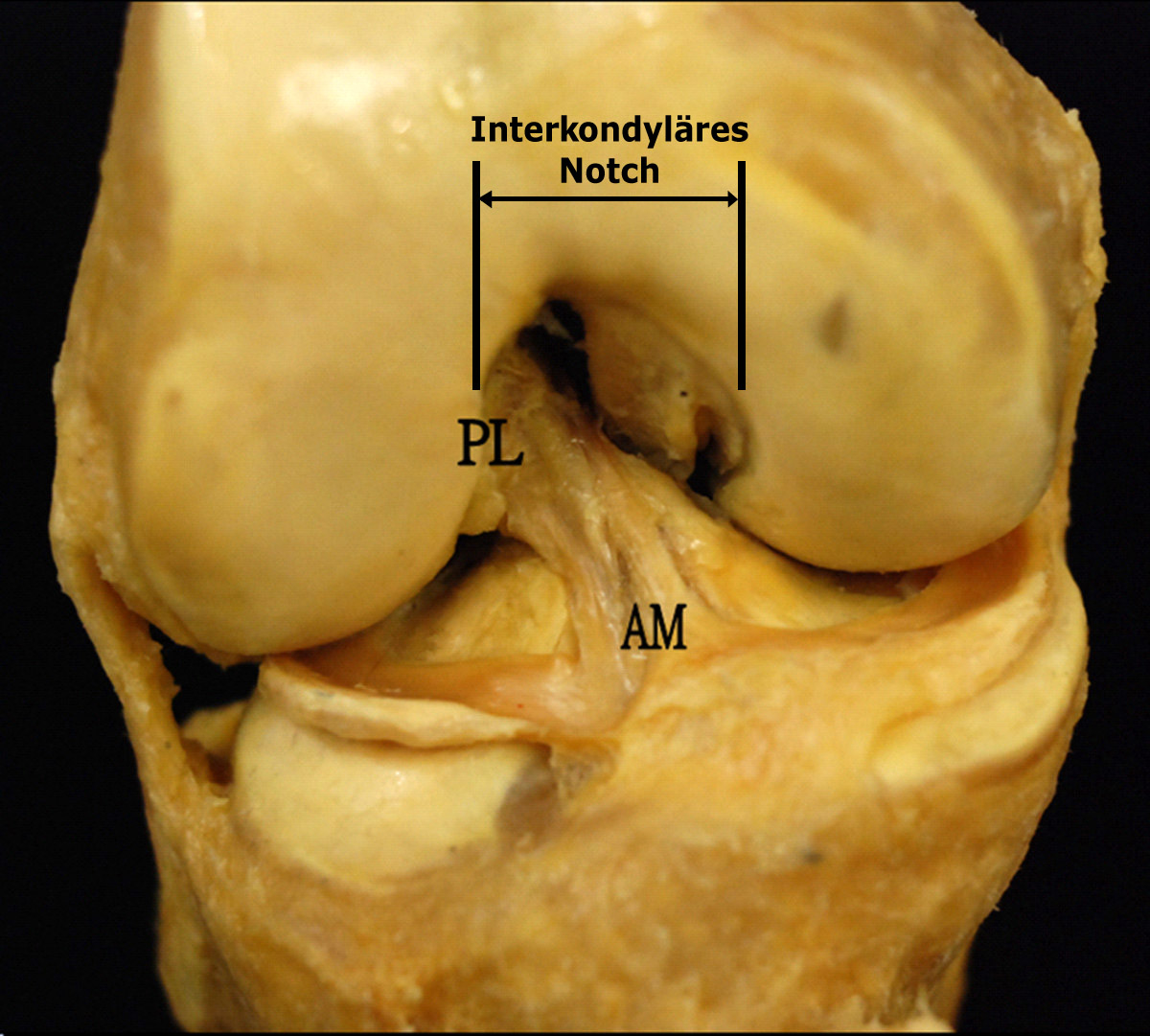 An anterior view of the right knee, showing anterior cruciate ligament with anteromedial (AM) and posterolateral (PL) bundles.